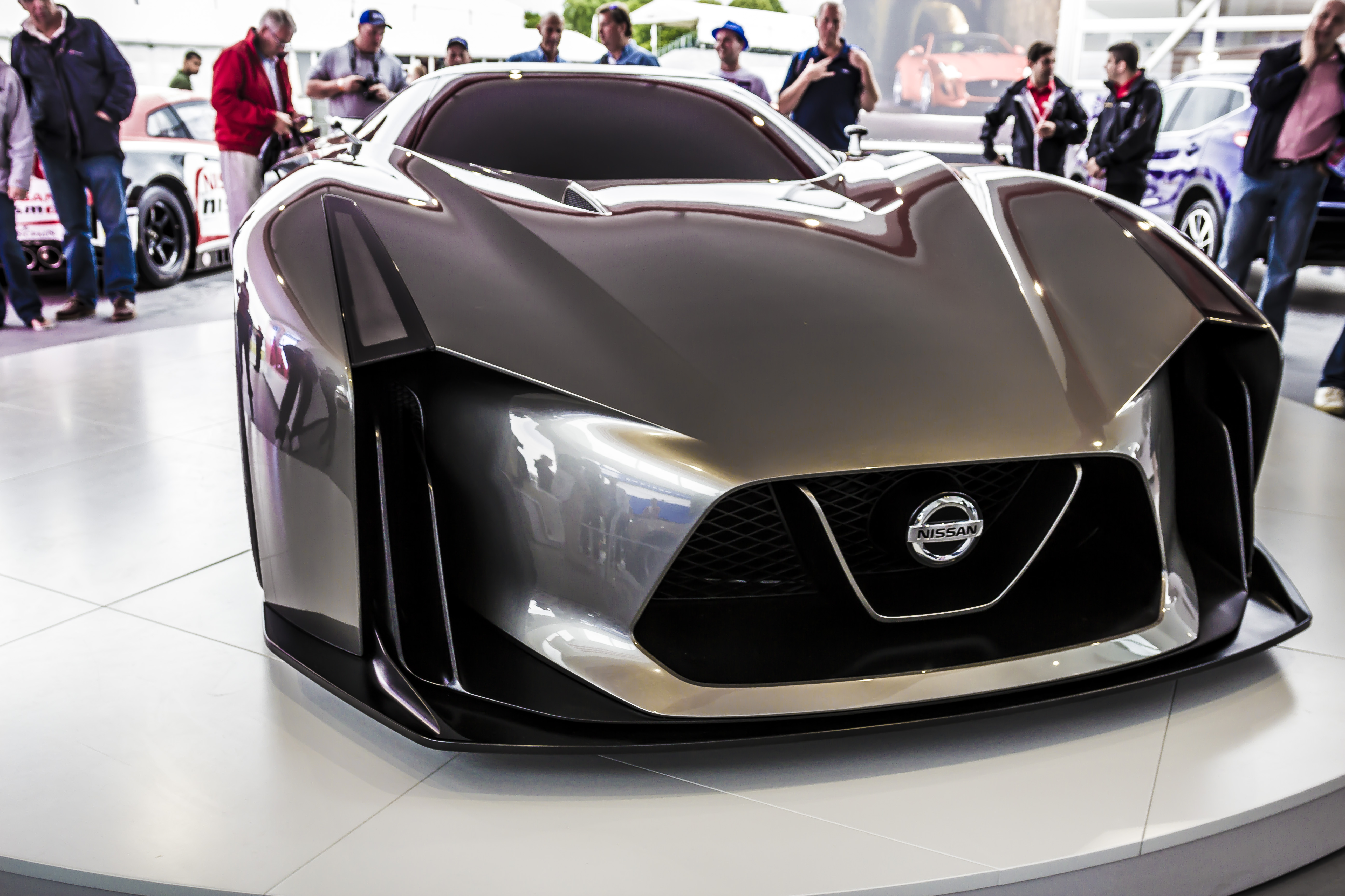 Nissan Concept 2020 Vision Gran Turismo